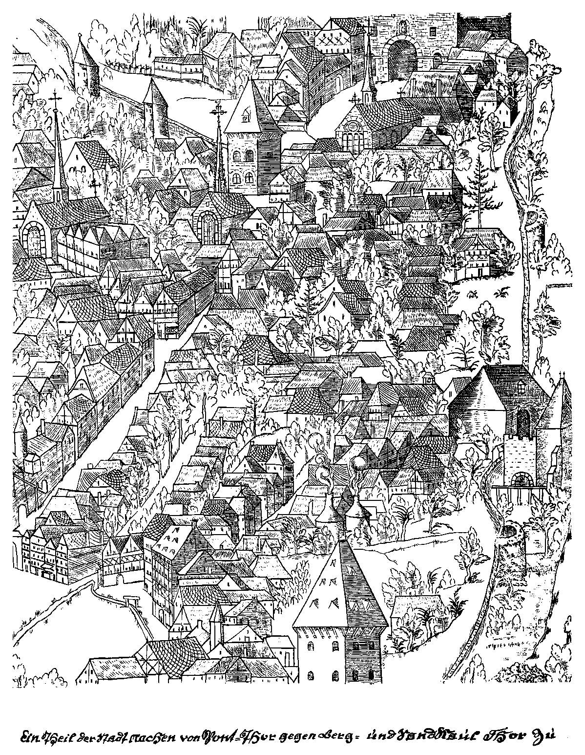 A part of the city of Aachen from Ponttor towards Bergtor and Sandkaultor